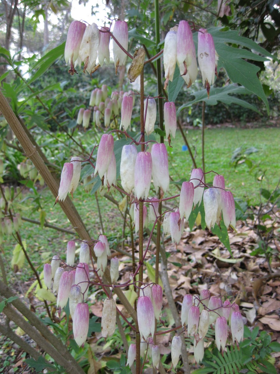 Photographed at the Queen Sirikit Botanic Garden (Chiang Mai Province, Thailand) in March